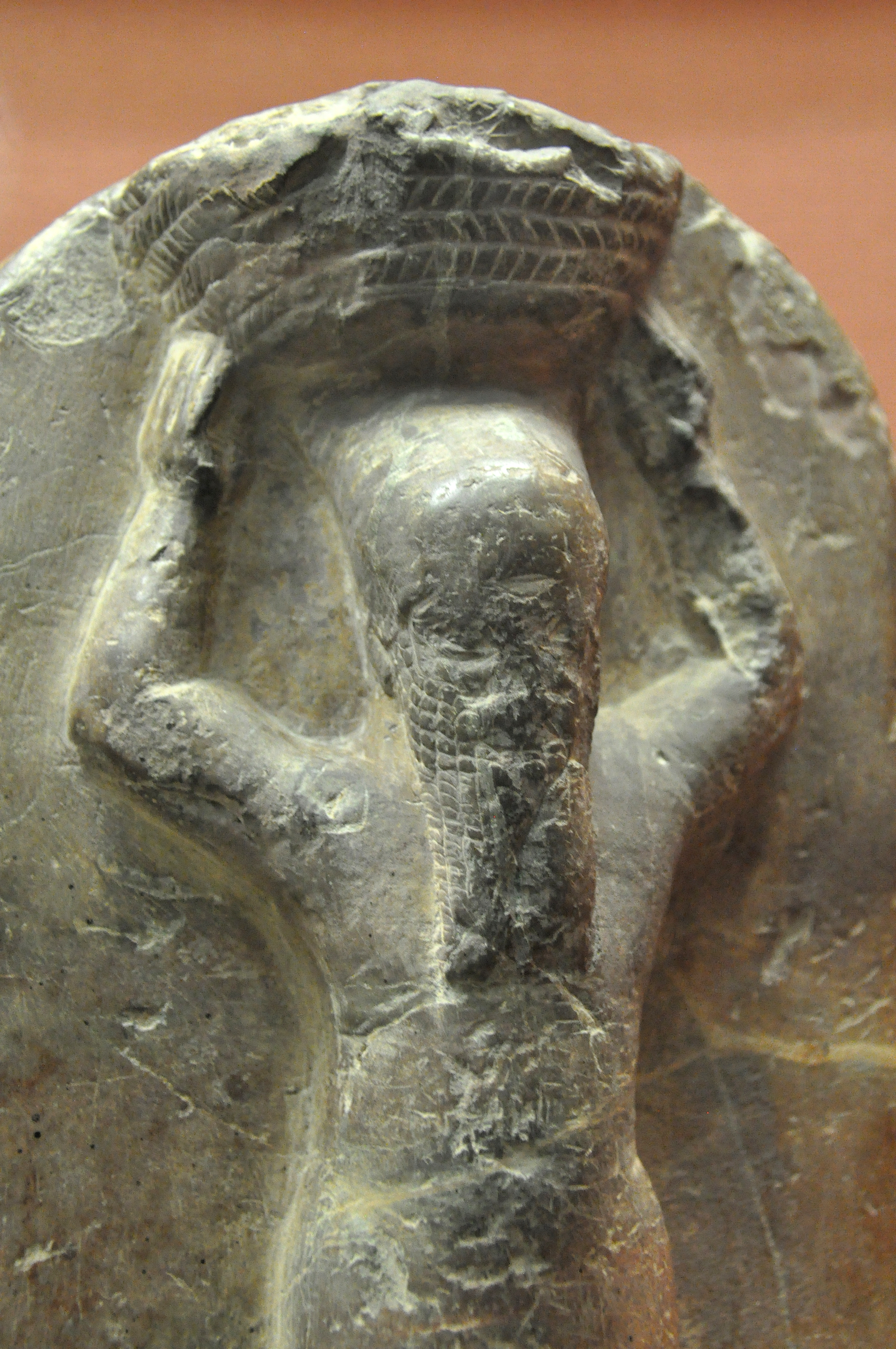 Detail of a stone monument of Shamash-shum-ukin. This Assyrian king of Babylon was depicted as a basket-bearer. The cuneiform inscriptions on the back have survived but the king's face was vandalized. 668-655 BCE. From the temple of Nabu at Borsippa, modern-day Iraq, and is currently housed in the British Museum